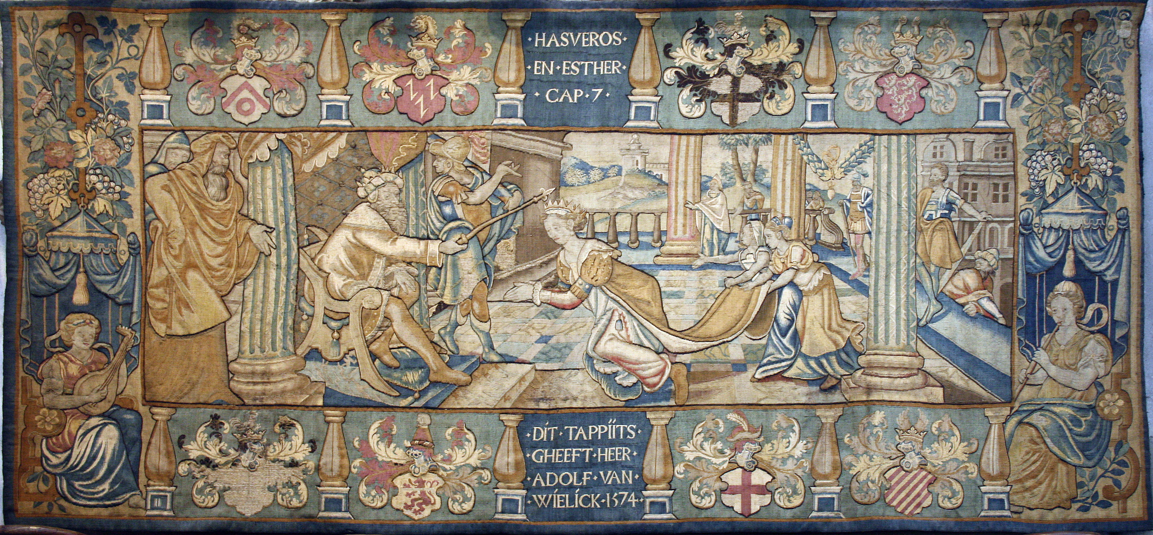 Xanten, Germany. Catholic church St. Viktor, tapestry above southern choir stalls.